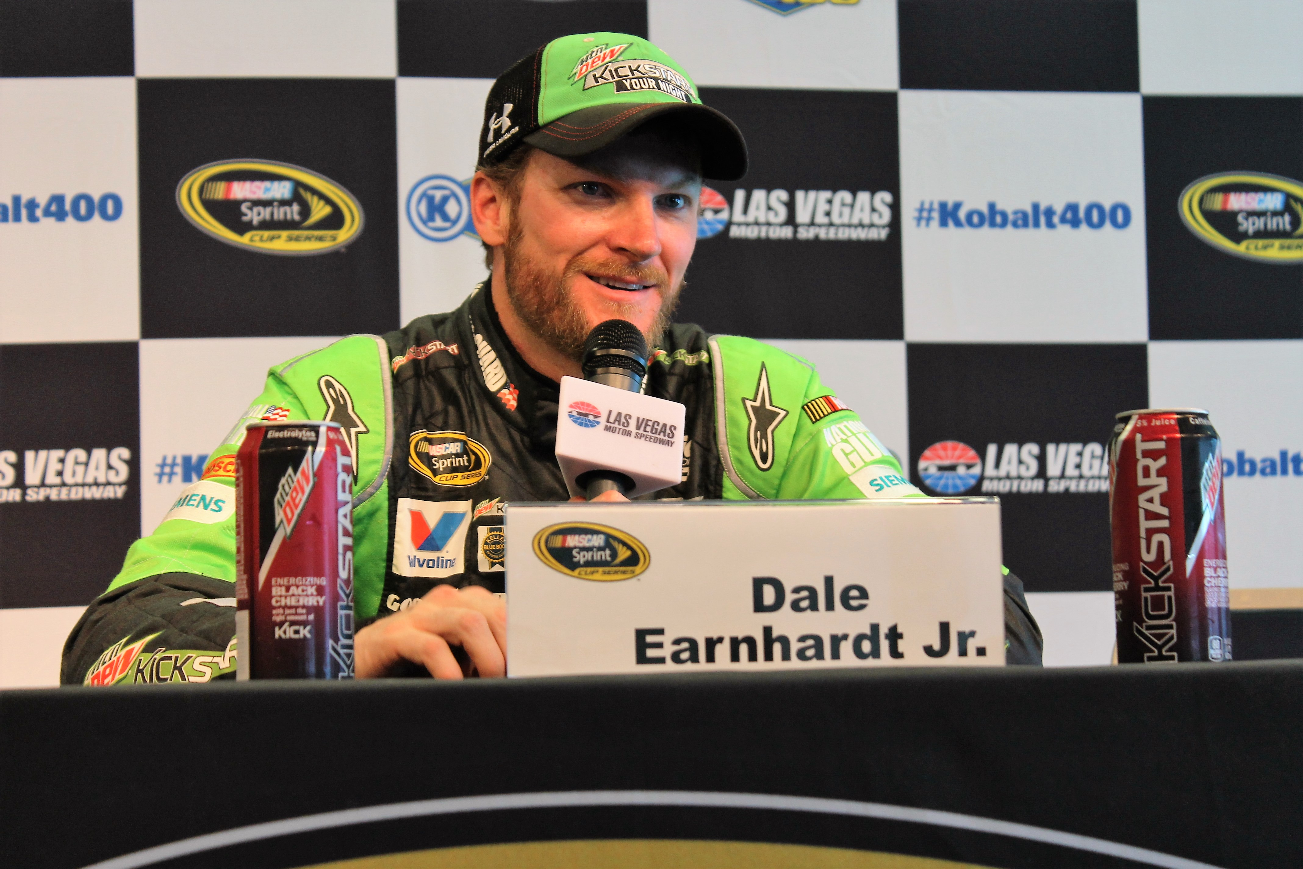 Dale Earnhardt Jr. at Las Vegas Motor Speedway 2014 Photo Credit: Rob Street Racing Photography